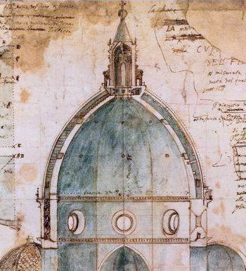 Architectural drawing of the dome of Florence Cathedral,[1] made nearly a century after construction of the dome.